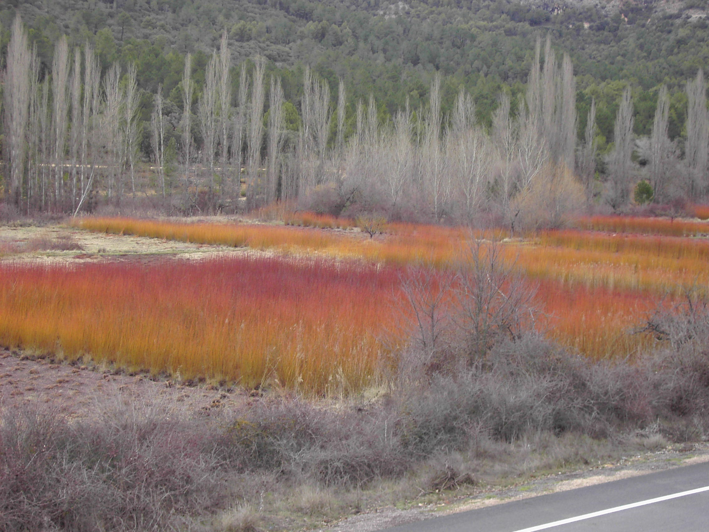 Wicker field near Cañamares(Spain), ready to be colledted.